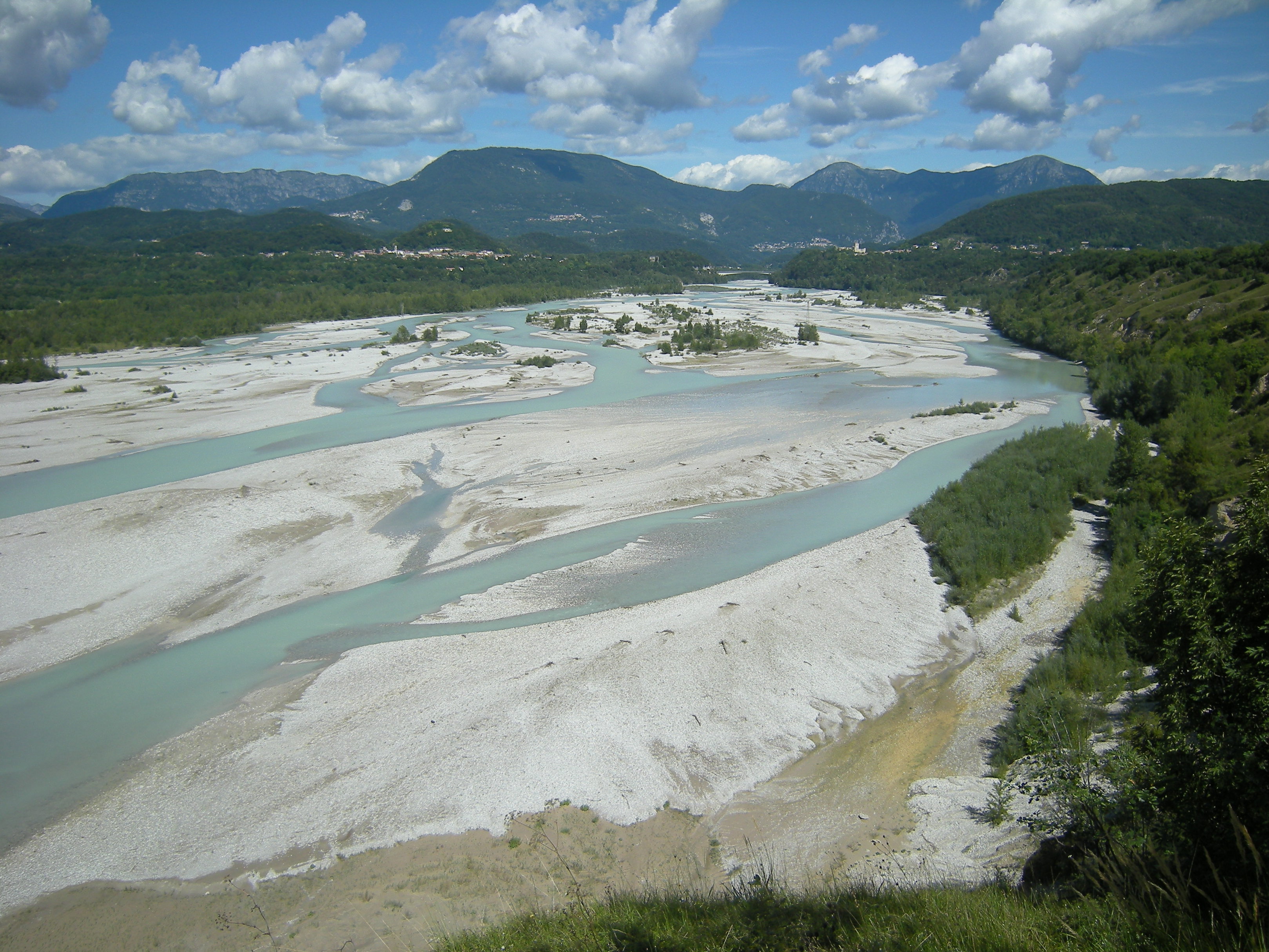 Tagliamento river from Aonedis to north